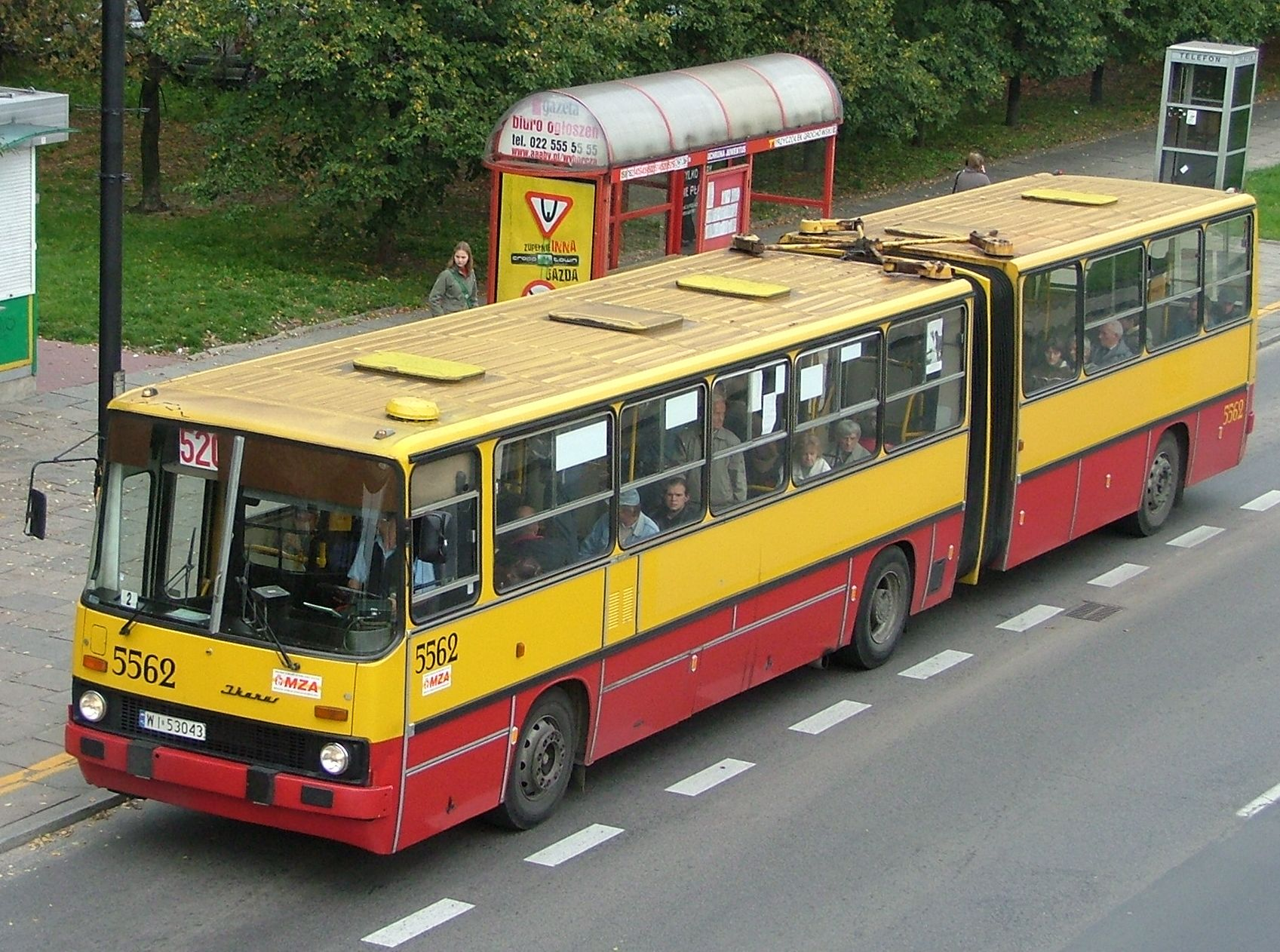 Poland, Warsaw, Praga Południe, Grochów, Ostrobramska Street. Ikarus 280.70E bus (#5562) built 1995, MZA Warszawa operator.